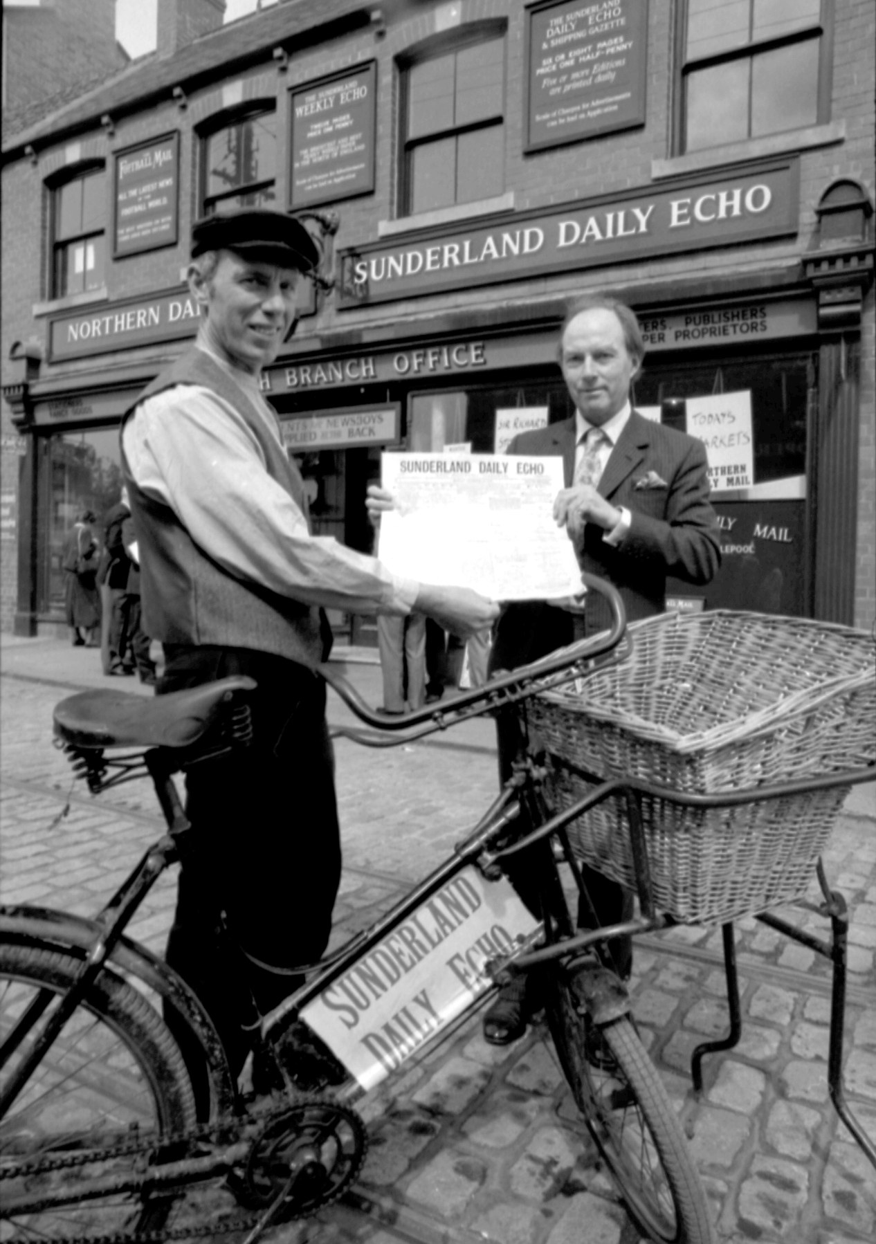 Sir Richard Storey opens the Sunderland Echo exhibit at the Beamish Museum.